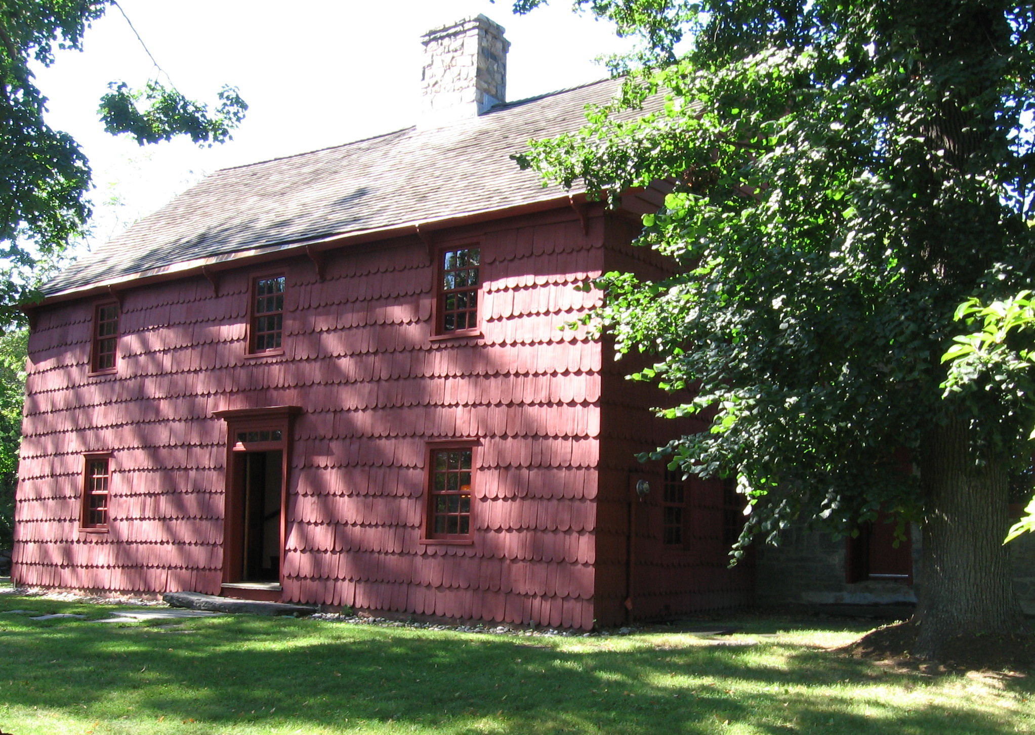 View of Putnam Cottage, also known as Knapp's Tavern on East Putnam Road in Greenwich, Connecticut. View is from the southeast. In 1779 General Israel Putnam escaped this inn just before the arrival of a British raiding party